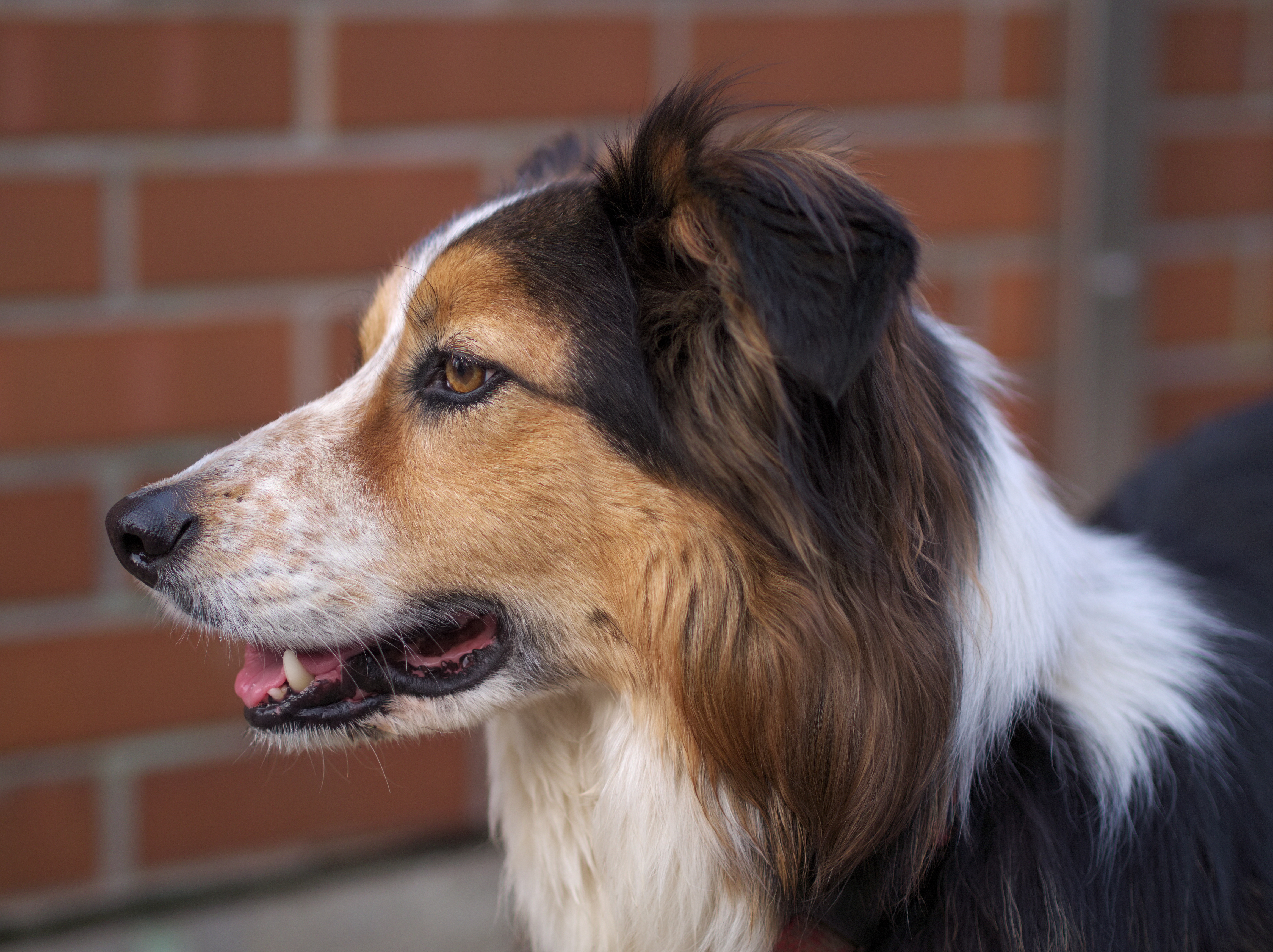 Face of a tri-coloured Border Collie (male, age 7 years)